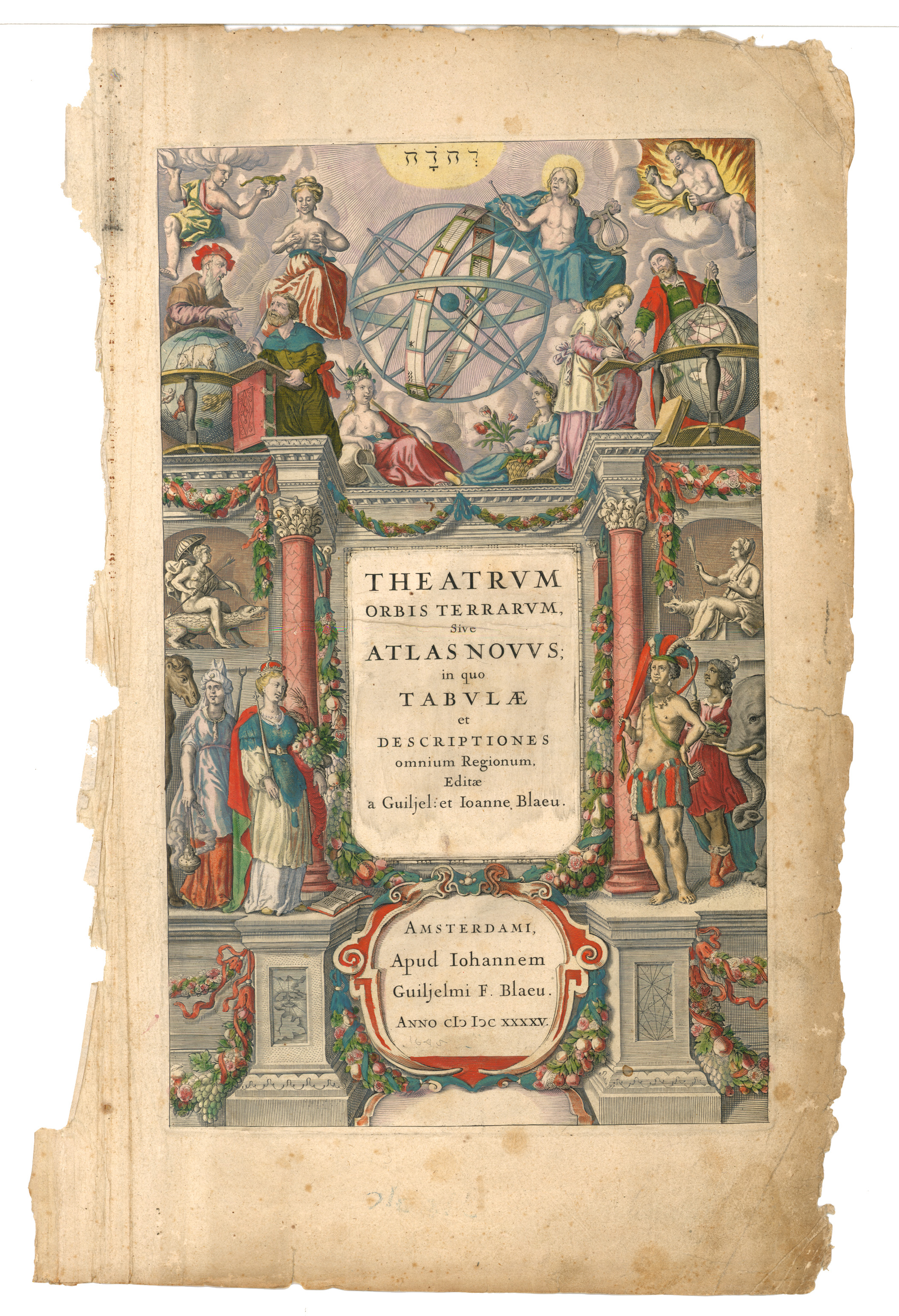 Illustrated coloured title page from Theatrum Orbis Terrarum, sive Atlas Novus in quo Tabulæ et Descriptiones Omnium Regionum, Editæ a Guiljel: et Ioanne Blaeu (Theater of the World, or a New Atlas of Maps and Representations of All Regions, Edited by Willem and Joan Blaeu.) Hebrew text on title page (Tetragrammaton, "Adonai", protection by God). Two female and two male figures in the sky. One laughing female figure with four breasts spouting milk, man with lyre, man seated in flames. Cartographers with pairs of compasses on globes, constellations on globes. Meridian globe. Zodiac. Two women with overflowing vat and fruits. Personifications of four world races: Asian/Jewish? with thurible, European, Indian (plumed hat, arrows and bow) and African (spear). Man with parasol riding a crocodile, woman with bow and arrows and a wolf. Camel, elephant, open book on the floor.